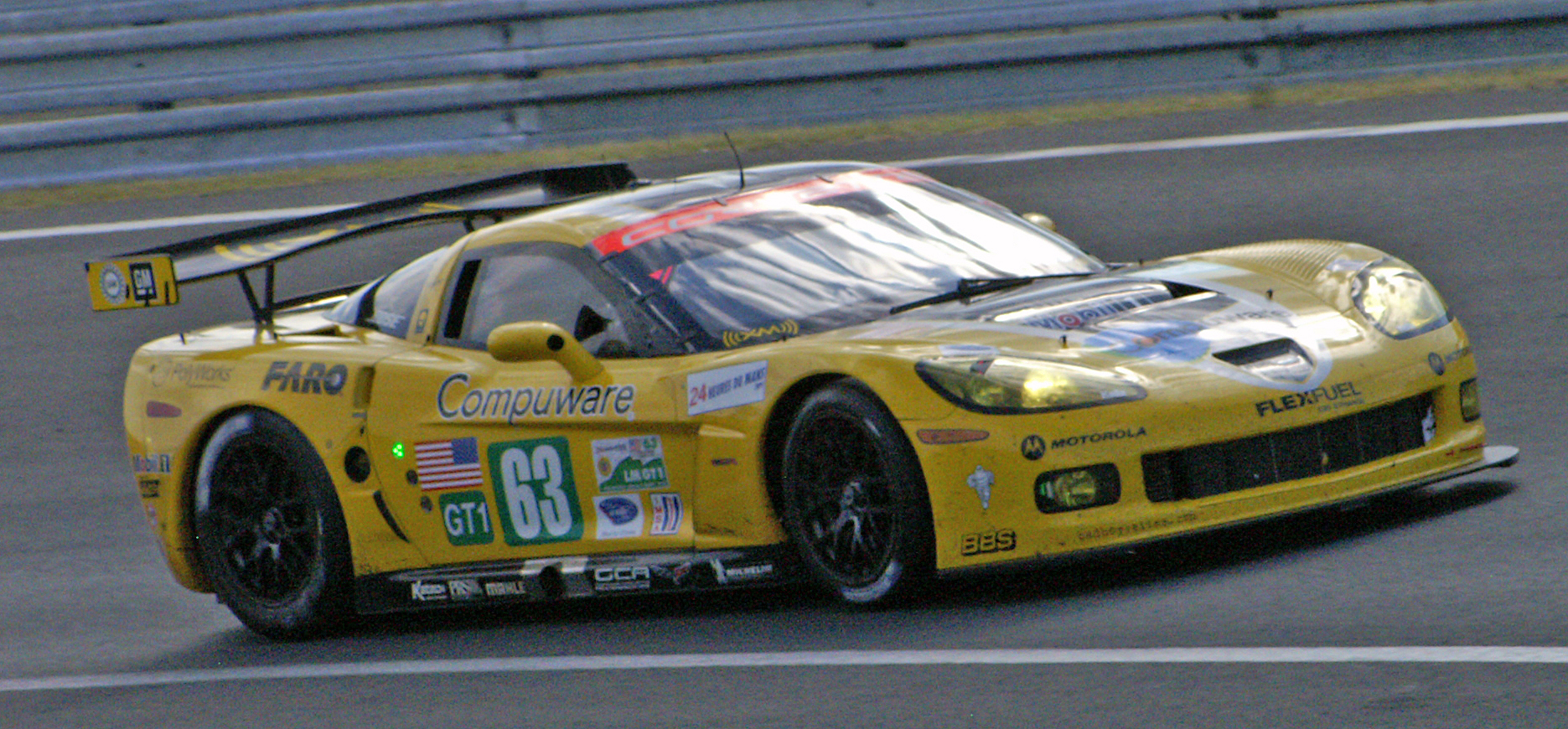 Corvette C6R - Team Corvette Racing Le Mans 2009